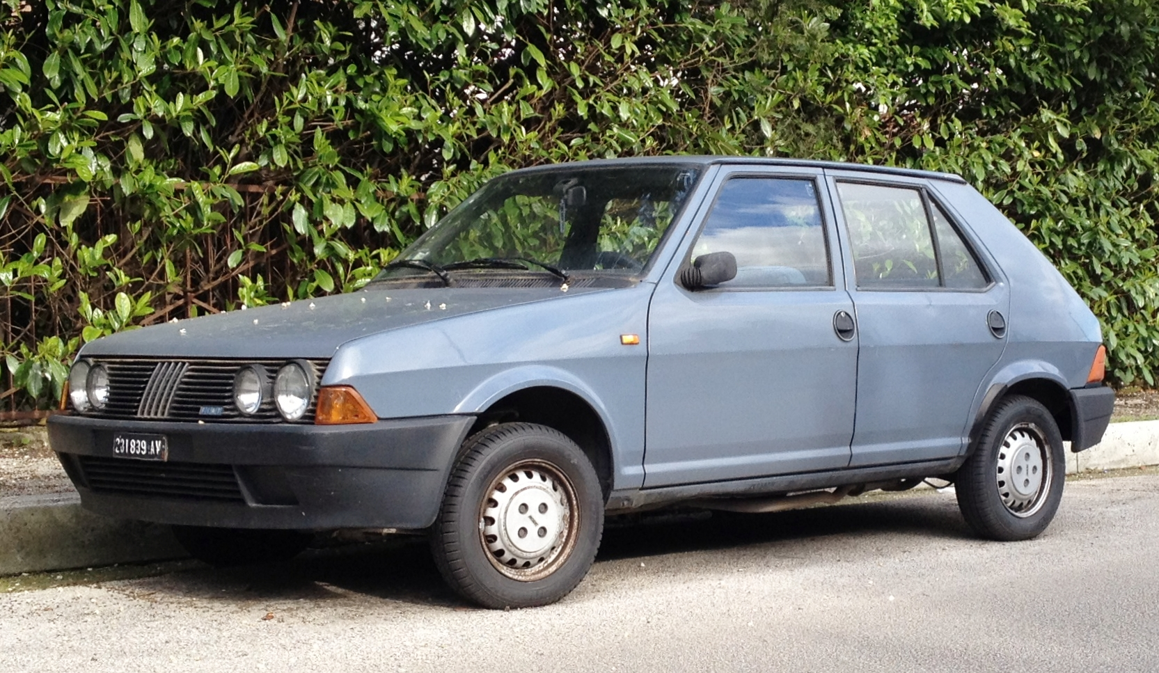 Fiat Ritmo 5door facelift